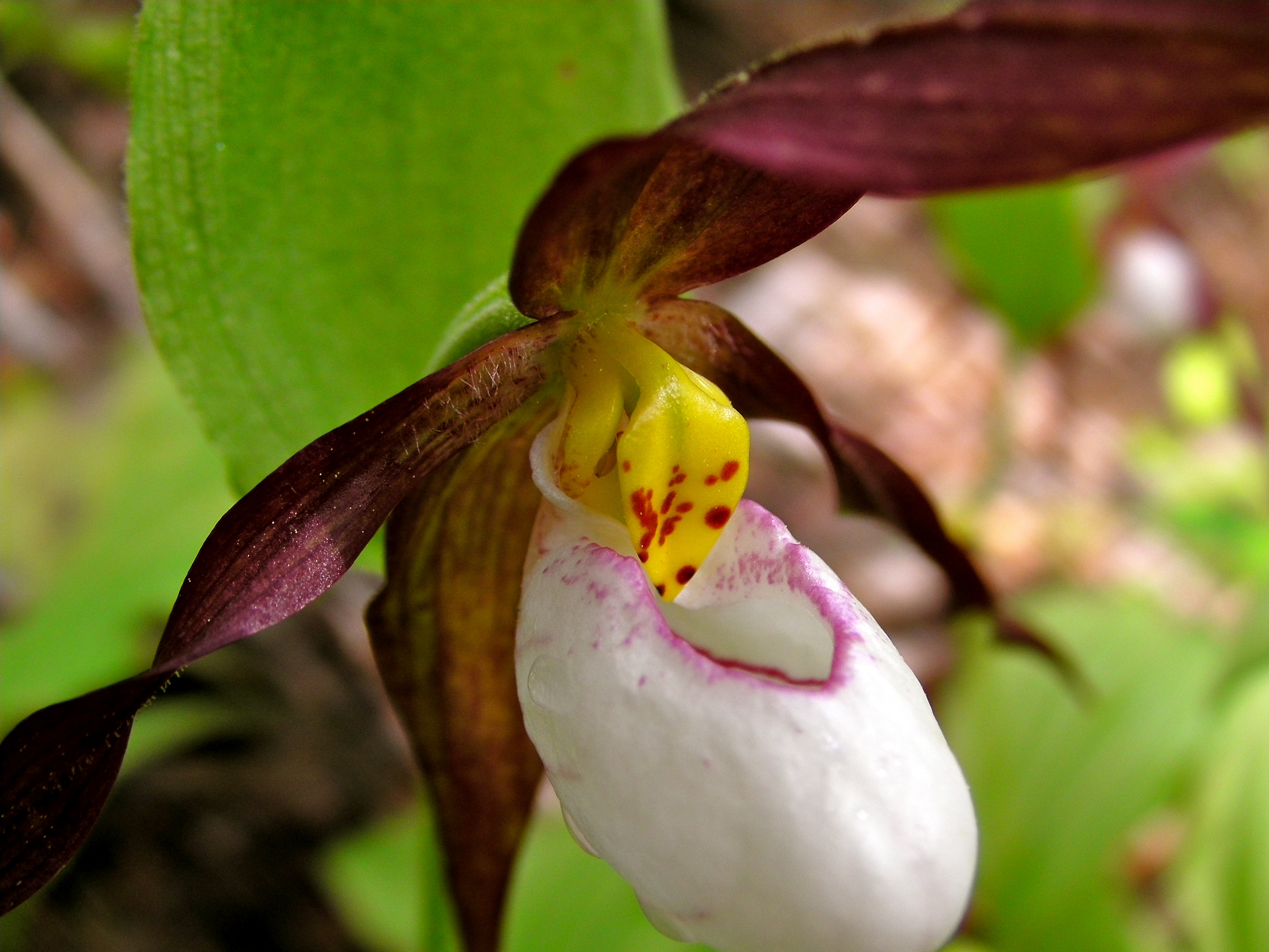 Flower of Cypripedium montanum. Photo taken in the north central Cascades of WA state.